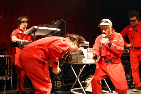 The Tokyo Shock Boys at a show in Tokyo, Japan on March 2 en:2008.